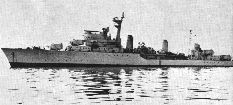 The Chilean destroyer Almirante Riveros (18) underway during exercise UNITAS III, in 1962.